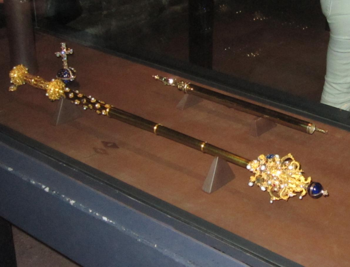 Sceptre of the King of Sweden as shown to public on National DayPlace: Royal Treasury, Stockholm Palace, Sweden